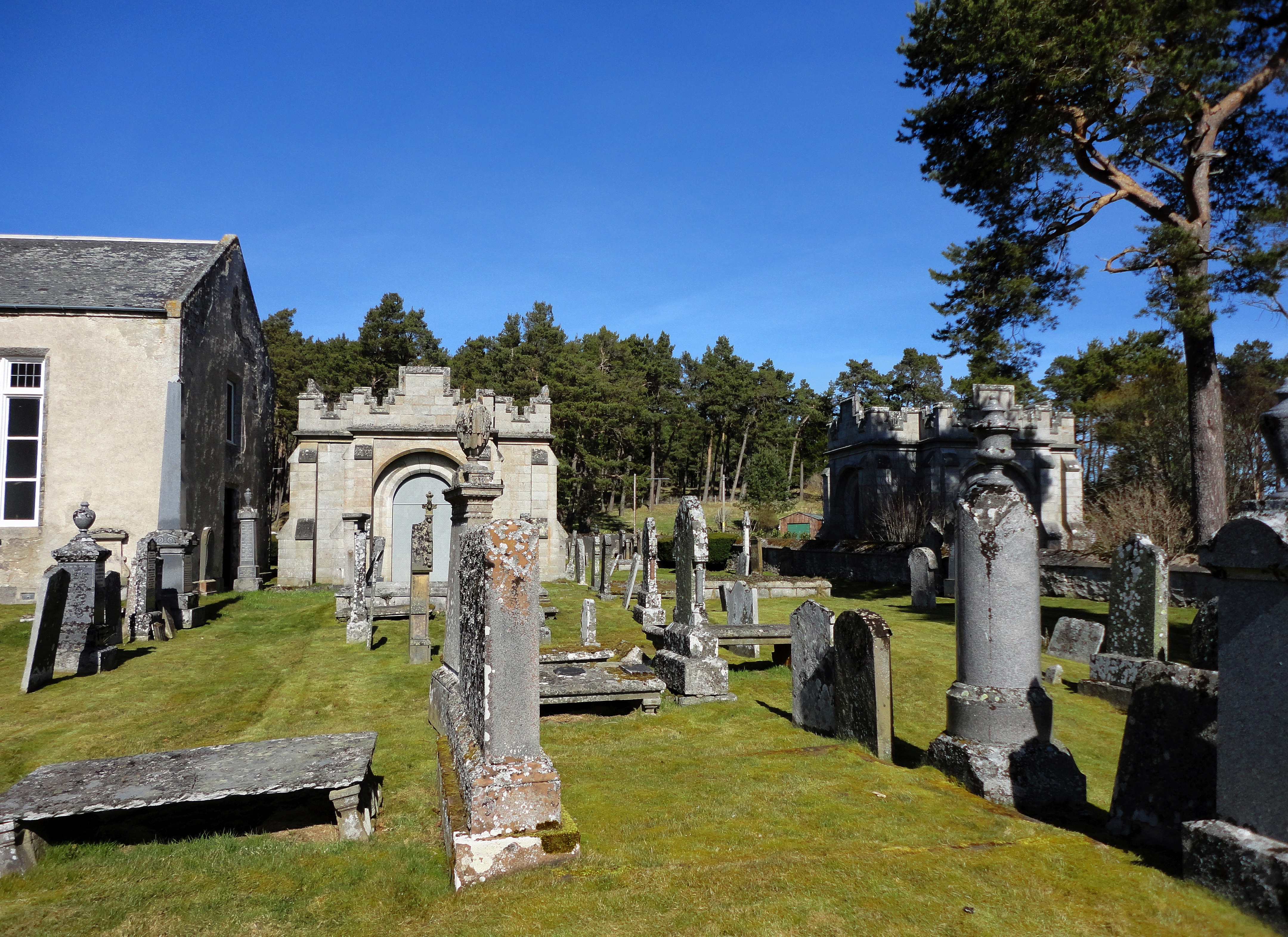 Duthil Old Parish Church and Churchyard (near Carrbridge in Inverness-shire, Scotland): View of the south side of the old parish church, looking north-east